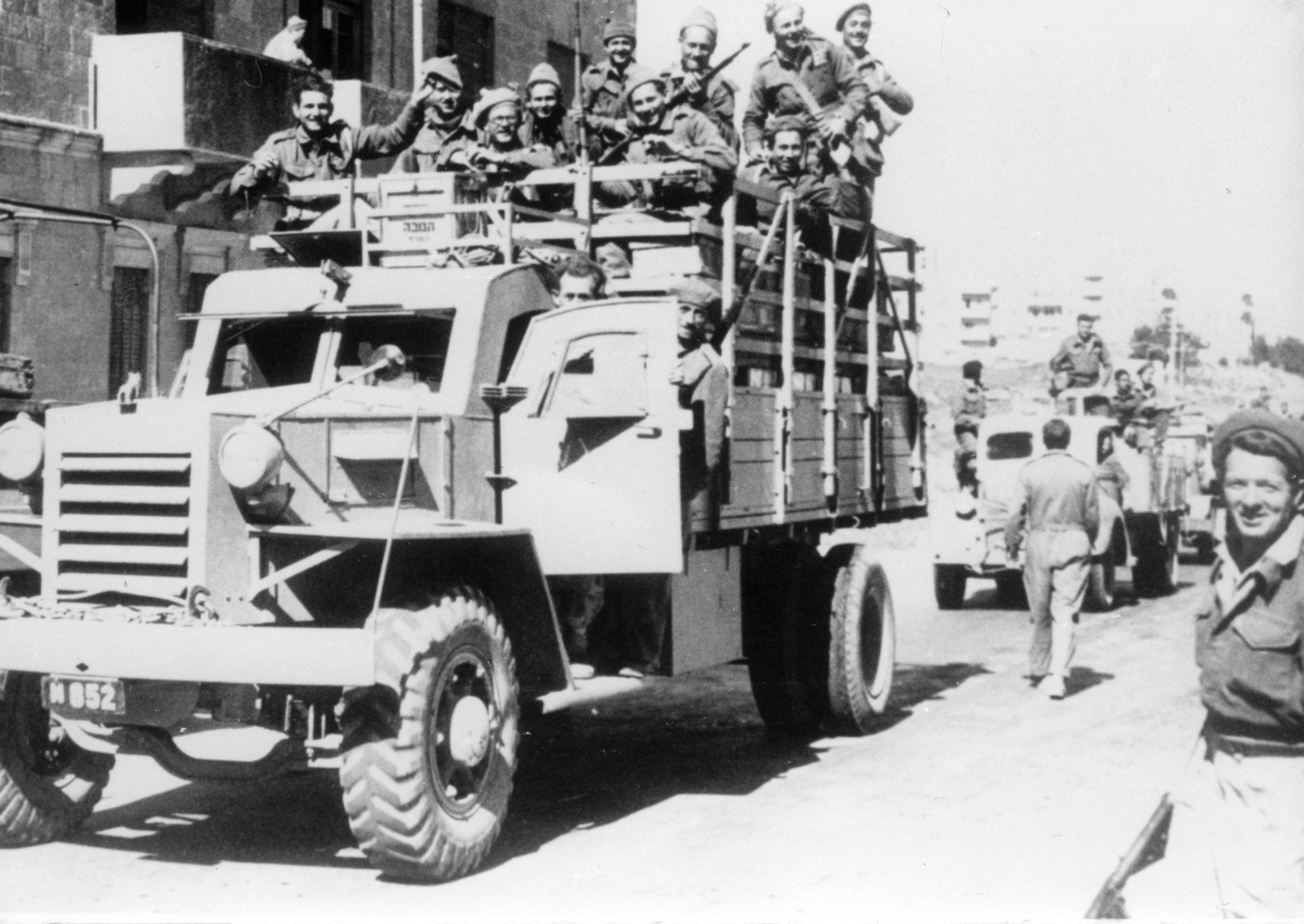 The Palmach, Israel Defense Forces